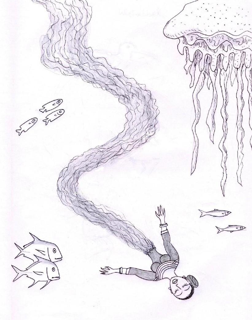 Ink and charcoal on paper. Donhiyala's death. Illustration for Don Hiyala & Alifulhu, a Maldivian folk story.